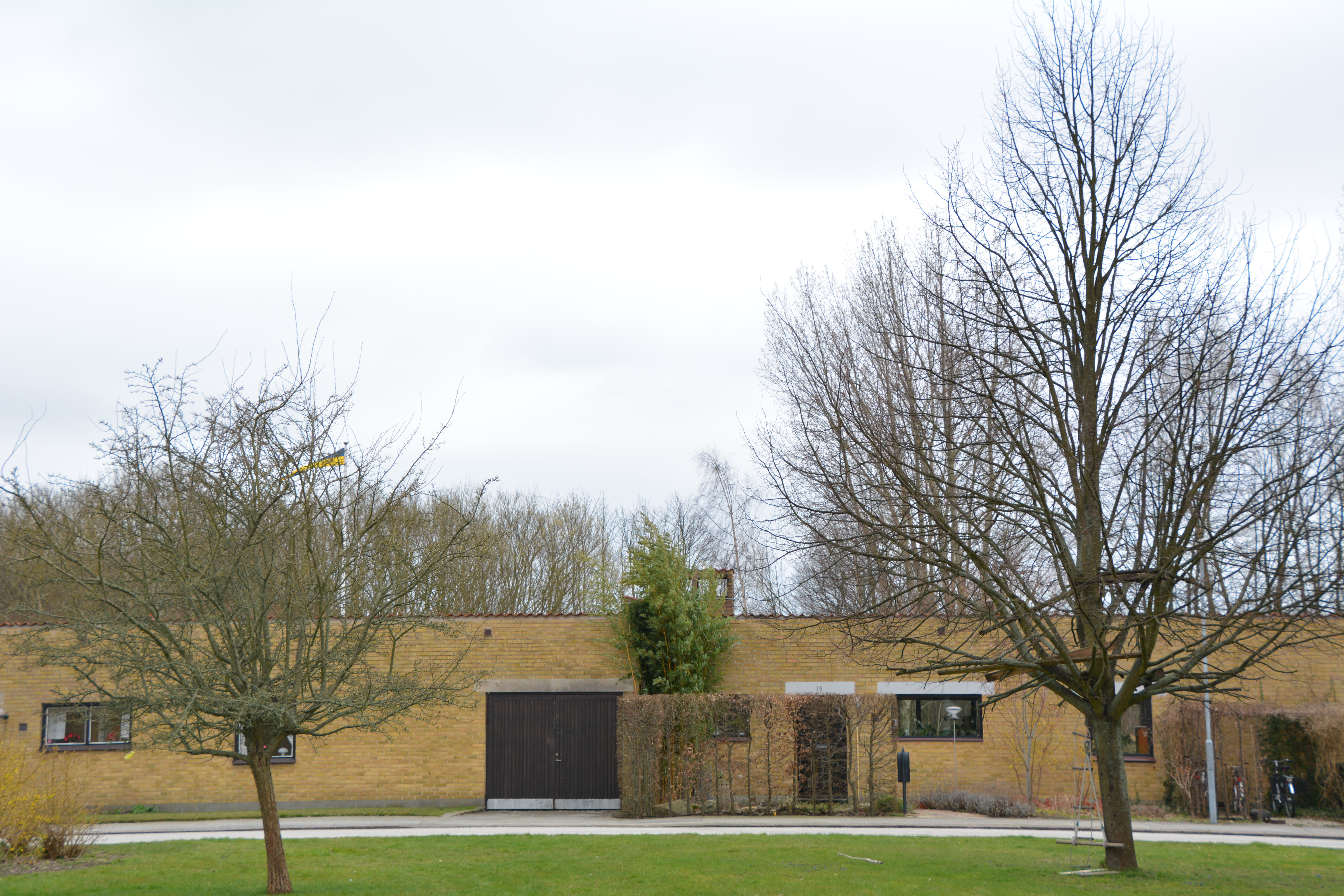 Planetstaden im Lund